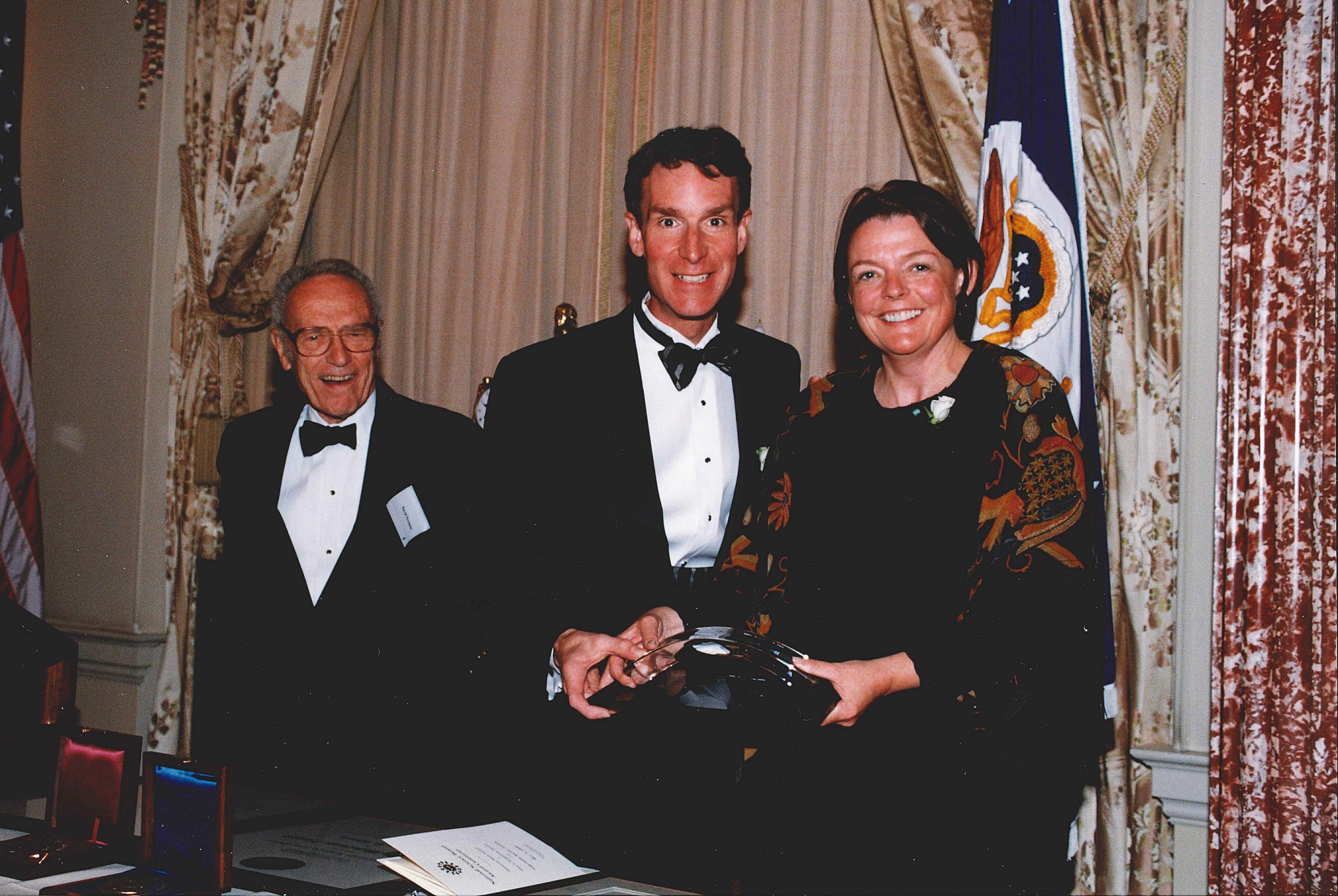 1999 Public Service Award from National Science Board presented to Bill Nye the Science Guy Group: "Bill Nye the Science Guy", KCTS-TV, Seattle; Accepting the Award: Bill Nye, and Elizabeth Brock. David Perlman, Chair, NSB Public Service Award Committee (far left) — "For its masterful presentations of the sciences to the younger generation, thus encouraging and fostering an awareness and appreciation of science and technology."